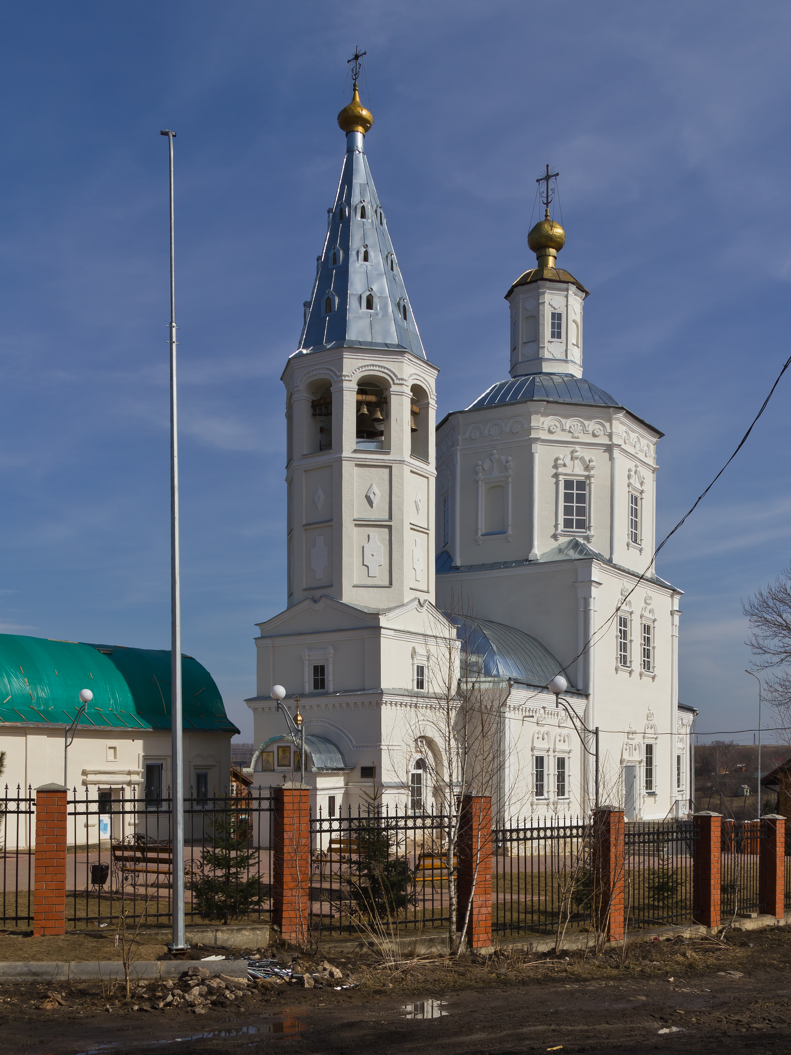 Church of the Epiphany of former Bogoyavlensky Monastery in Venyov, Tula Oblast, Russia.